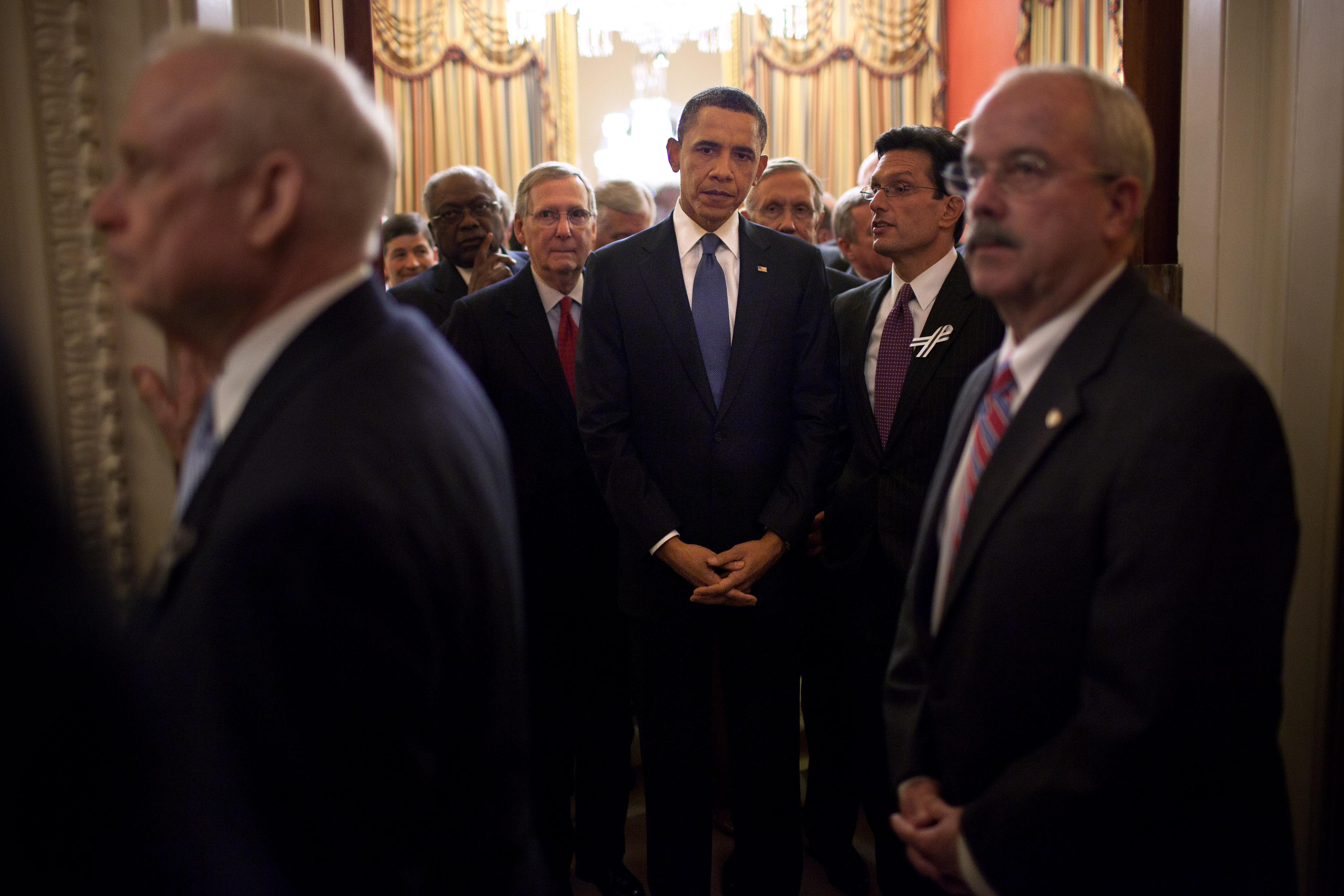 Wilson "Bill" Livingood (left), the Sergeant at Arms of the U.S. House of Representatives, prepares to announce the arrival of President Barack Obama (center) at the entrance to the House Chamber in the U.S. Capitol for the 2011 State of the Union Address. Standing to the right is Terrance W. Gainer, the Sergeant at Arms of the U.S. Senate.